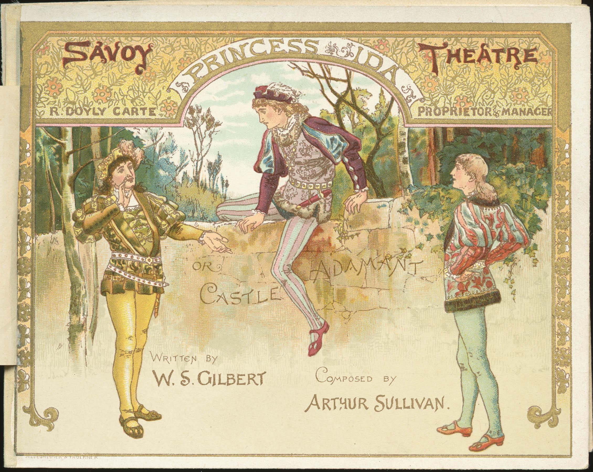 1884 illustration of a scene from Princess Ida